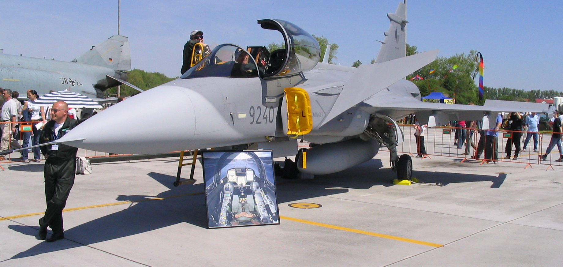 Saab JAS-39 “Gripen” of the Czech Air Force; taken during air show in Chotusice, AFB Čáslav, Czech Republic (LKCV) Česky: Saab JAS-39 „Gripen“ českého letectva; vyfotografováno při letecké přehlídce v Chotusicích (letiště Čáslav, LKCV)